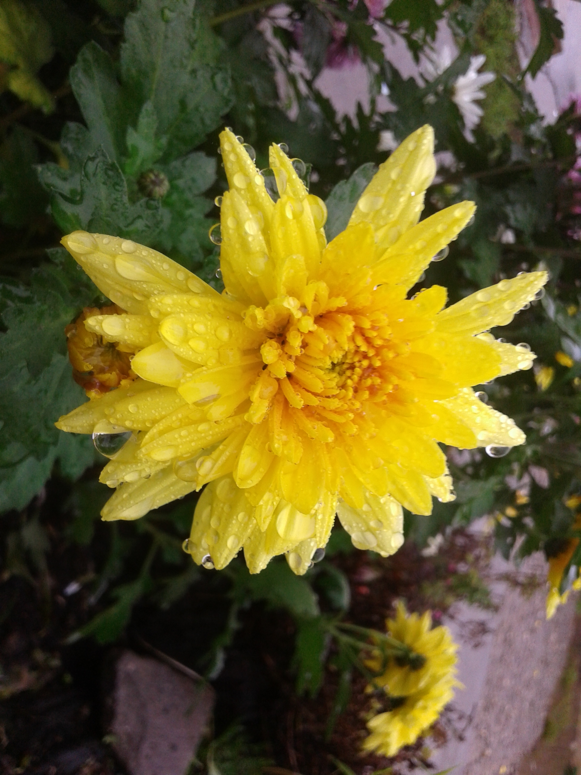 In the rain